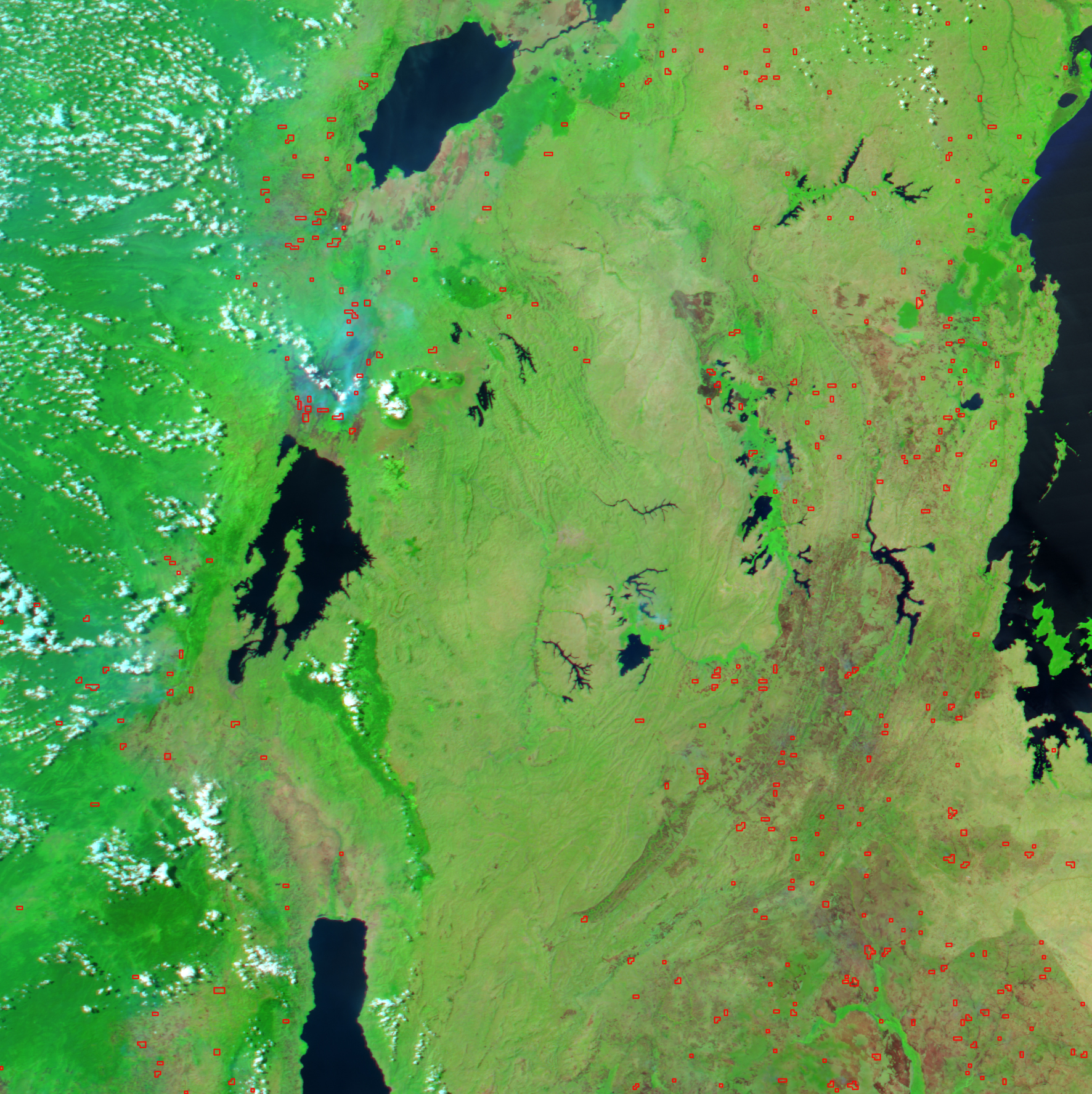 Original caption states, "In east-central Africa, numerous fires (marked in yellow [i.e. red on this version]), probably agricultural in purpose, were burning when the Moderate Resolution Imaging Spectroradiometer (MODIS) on NASA’s Aqua satellite captured this image on July 5, 2004. Unfortunately, in the Kagera National Park that hugs the far eastern margin of Rwanda, the fires may not be routine agricultural burning. According to news reports, wildfires started by poachers may have burned as much as one-third of the protected land in the park. The dense vegetation (bright green) of the small park (seen in rectangular inset) is marred by several reddish-brown burn scars, the largest in the northern tip of the park, surrounded by three actively burning fires. Water in the image appears dark blue or nearly black."